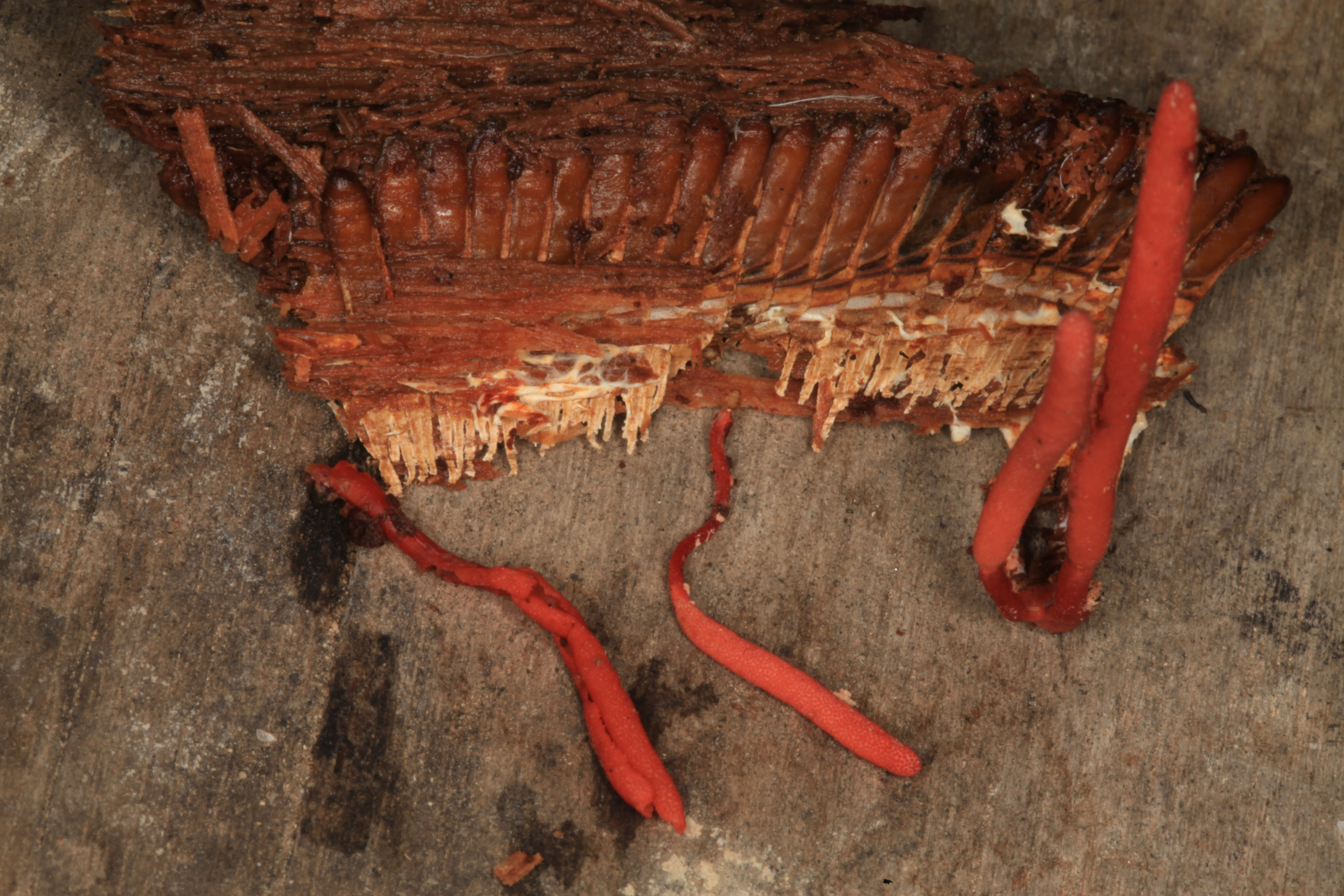 Cordyceps pruinosa Petch Image location: Oriente, Ecuador these were found growing on the eggs that katydid like insects had laid in fallen logs or buried wood. The wood was often very solid. Based on chemical features: KOH turn purple. Species aff with C. ninchukispora. This kind of entomogenous fungi attack eggs of Orthoptera. When KOH is additioned change from red to purple. For more information about this, see the observation page at Mushroom Observer.